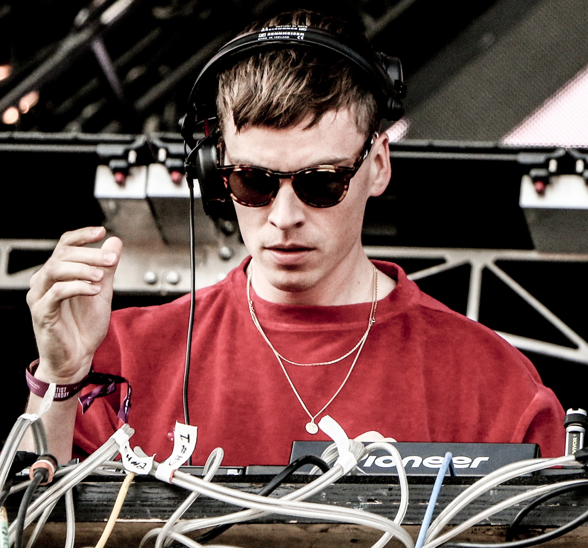 Nils Rondhuis from Yellow Claw playing live at Veld Festival 2016.